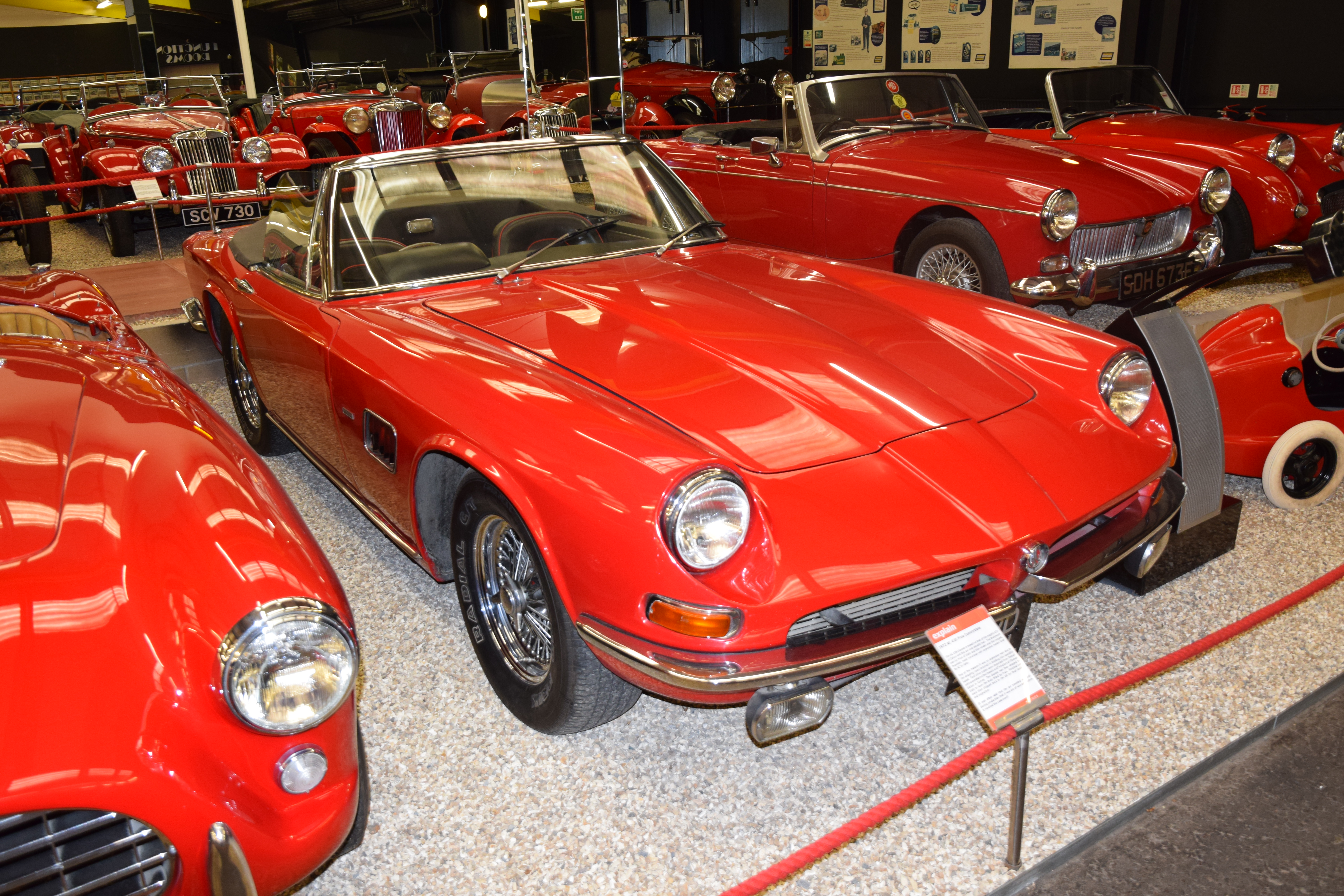 1972 AC 428 Frua Convertible with 7 litre Ford FE V8 engine at the Haynes International Motor Museum, Sparkford, 8 May 2017.